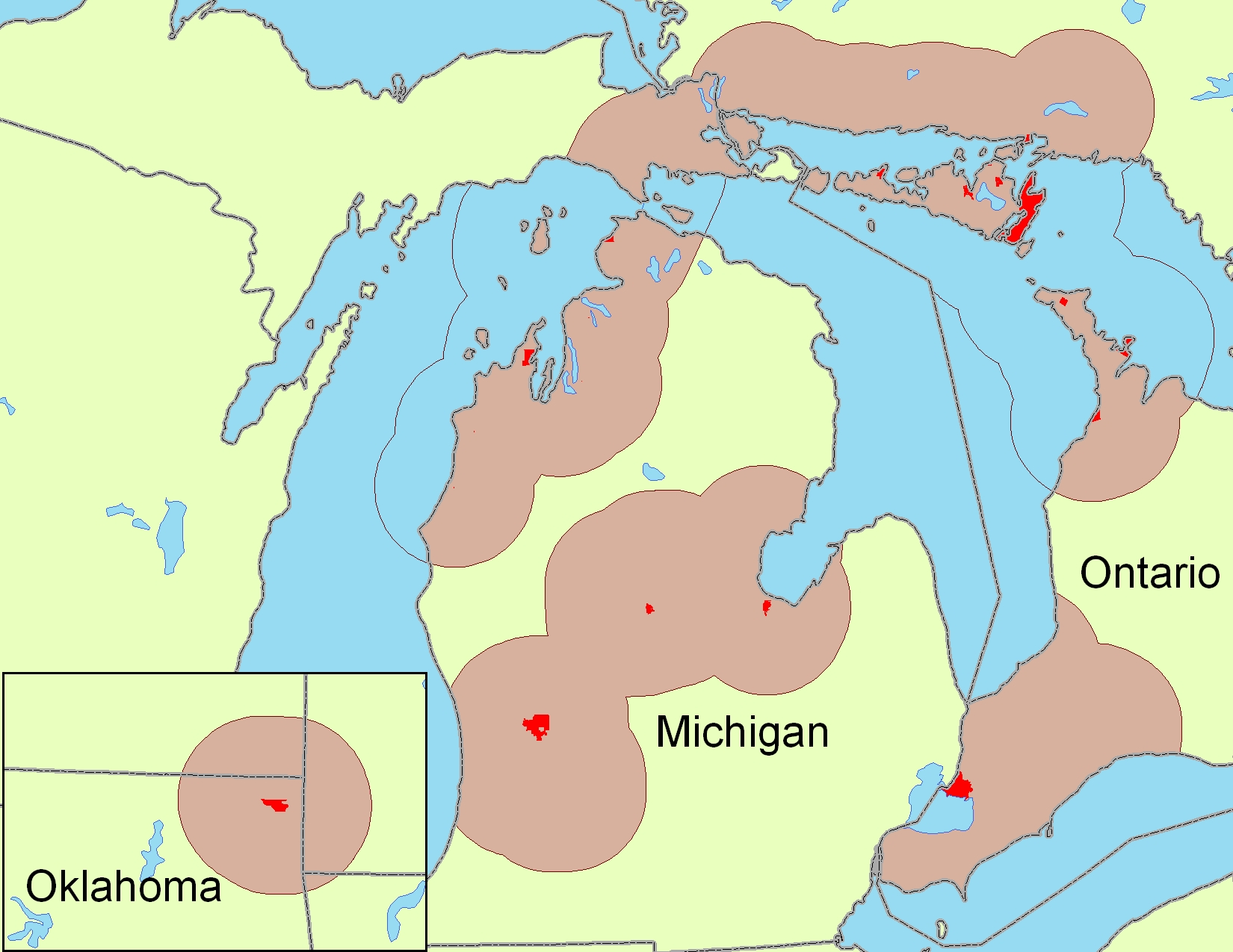 Map showing Odaawaa (Odawa/Ottawa) areas in Ontario, Michigan and Oklahoma. Reserves/Reservations and communities are shown in red.